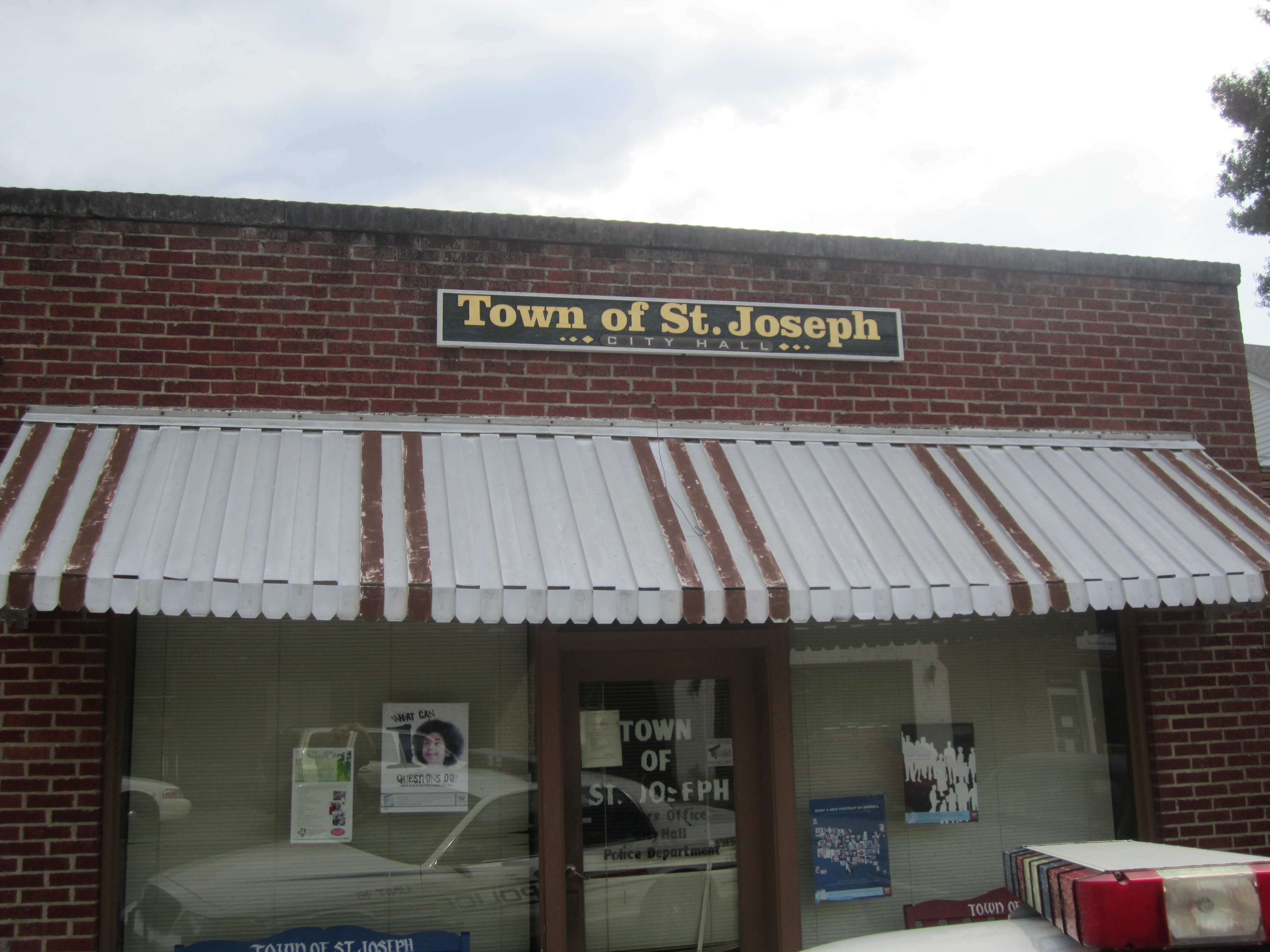 I took photo with Canon camera in St. Joseph, LA.